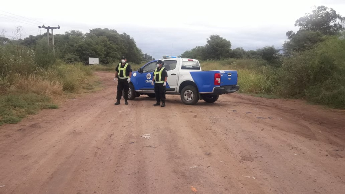 Santa Fe police blocking the access to Ceres during the lockdown of the city during the COVID-19 pandemic in Argentina.